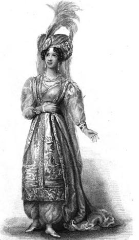 Mary Ann Paton (1802–1864) as Mandane in Thomas Arne's 1762 opera Artaxerxes